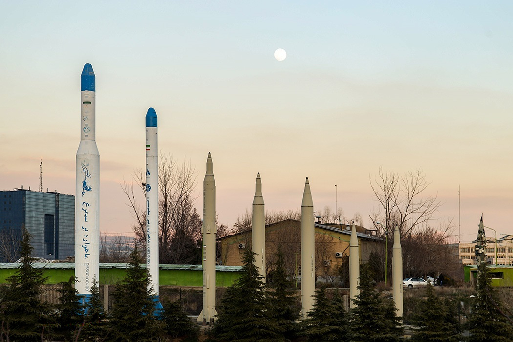 Some outputs of Iran's Missile Program.